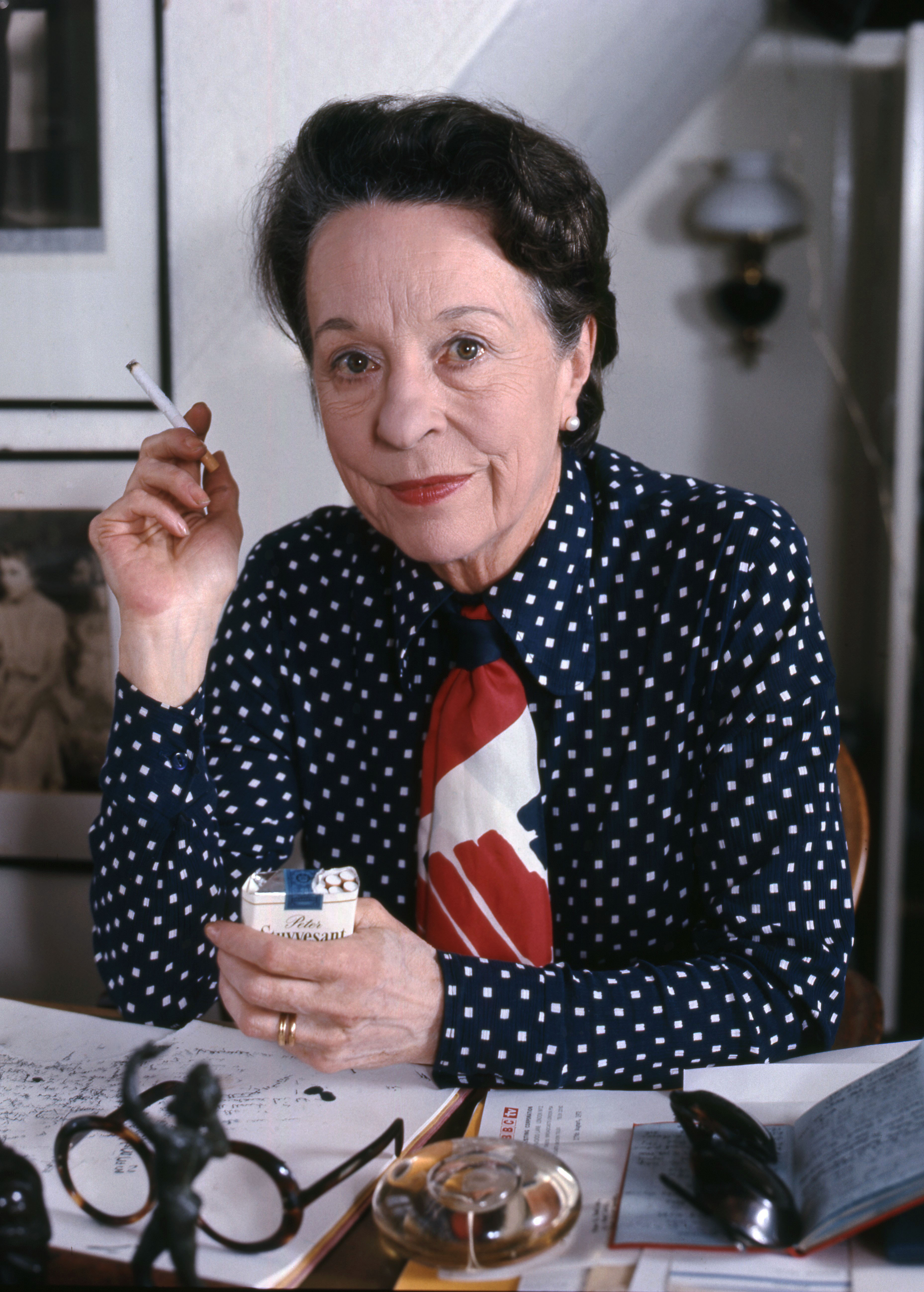 Margaret Rawlings at home in England